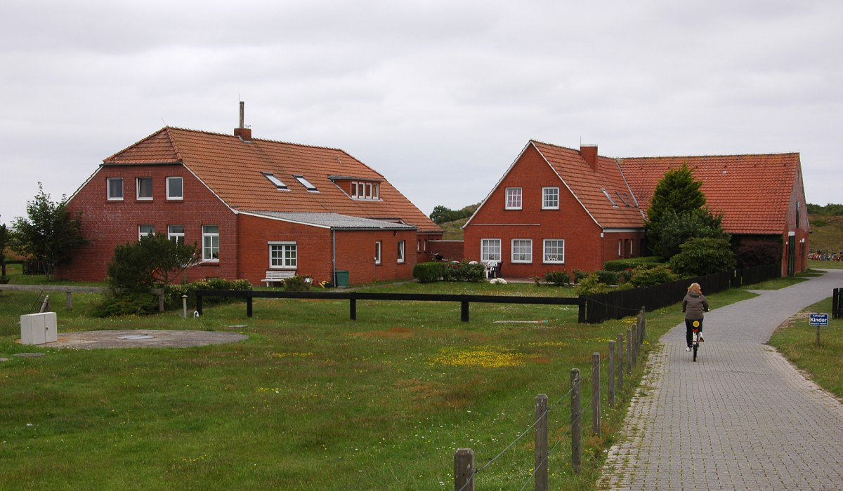 Meierei Langeoog, east side